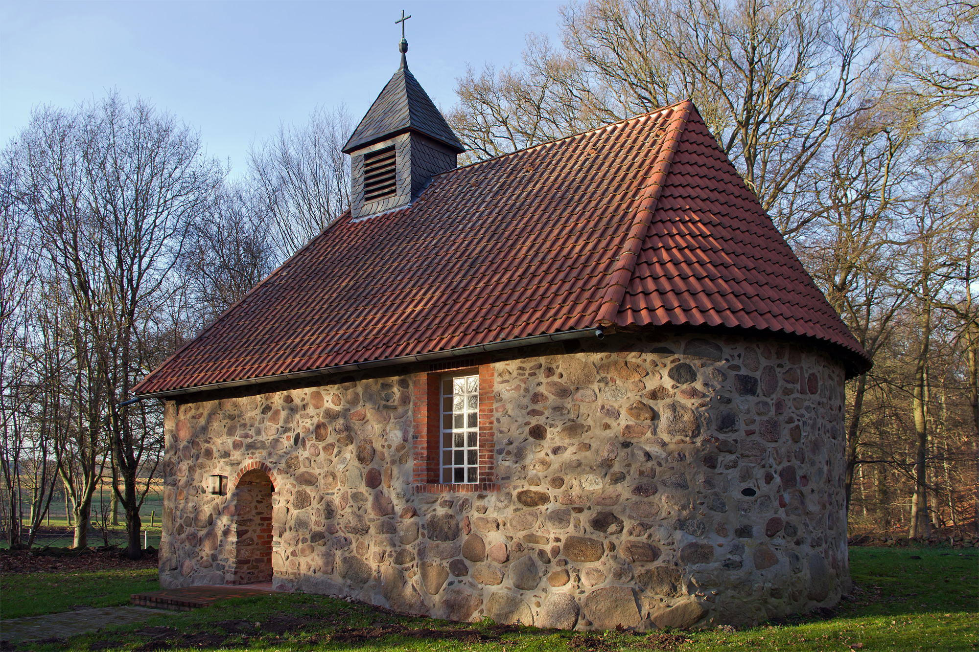 Chapel of the village Müssingen (district Uelzen, northern Germany).